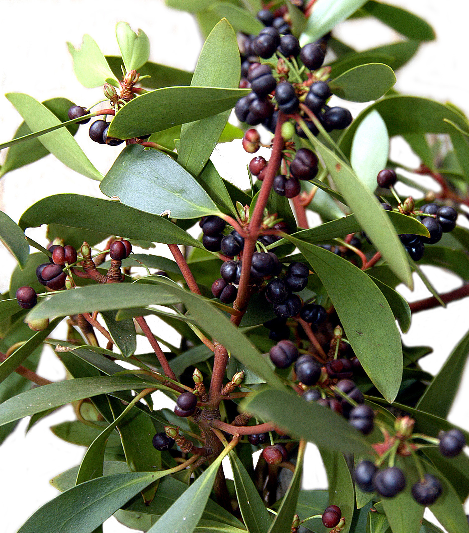 Native to cool, moist forest areas of south-eastern Australia, the mountain pepper is a shrub or small tree to 5 metres. The plant's dark green, glossy leaves and pea-sized ppurple-black berries have a hot, peppery flavour and unique aroma. The fruits and leaves can be used to flavour sauces, chutneys, meats, cheeses, pate, breads, pastas etc. CSIRO is working with Aboriginal communities and Australian industry to help develop the bush foods industry. CSIRO is seeking ways to lower production costs and increase product quality in order to meet the growing demand for a variety of food ingredients from Australian native plants, seeds and fruits.